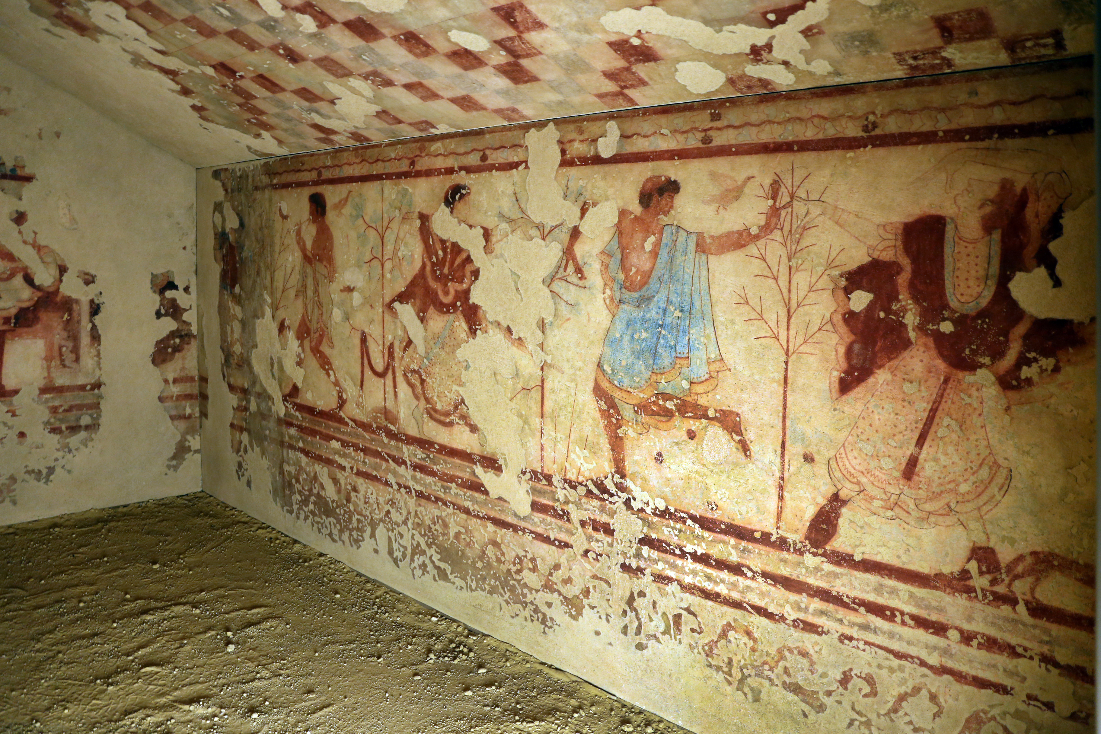 Etruscan antiquities the Museo archeologico nazionale (Tarquinia)